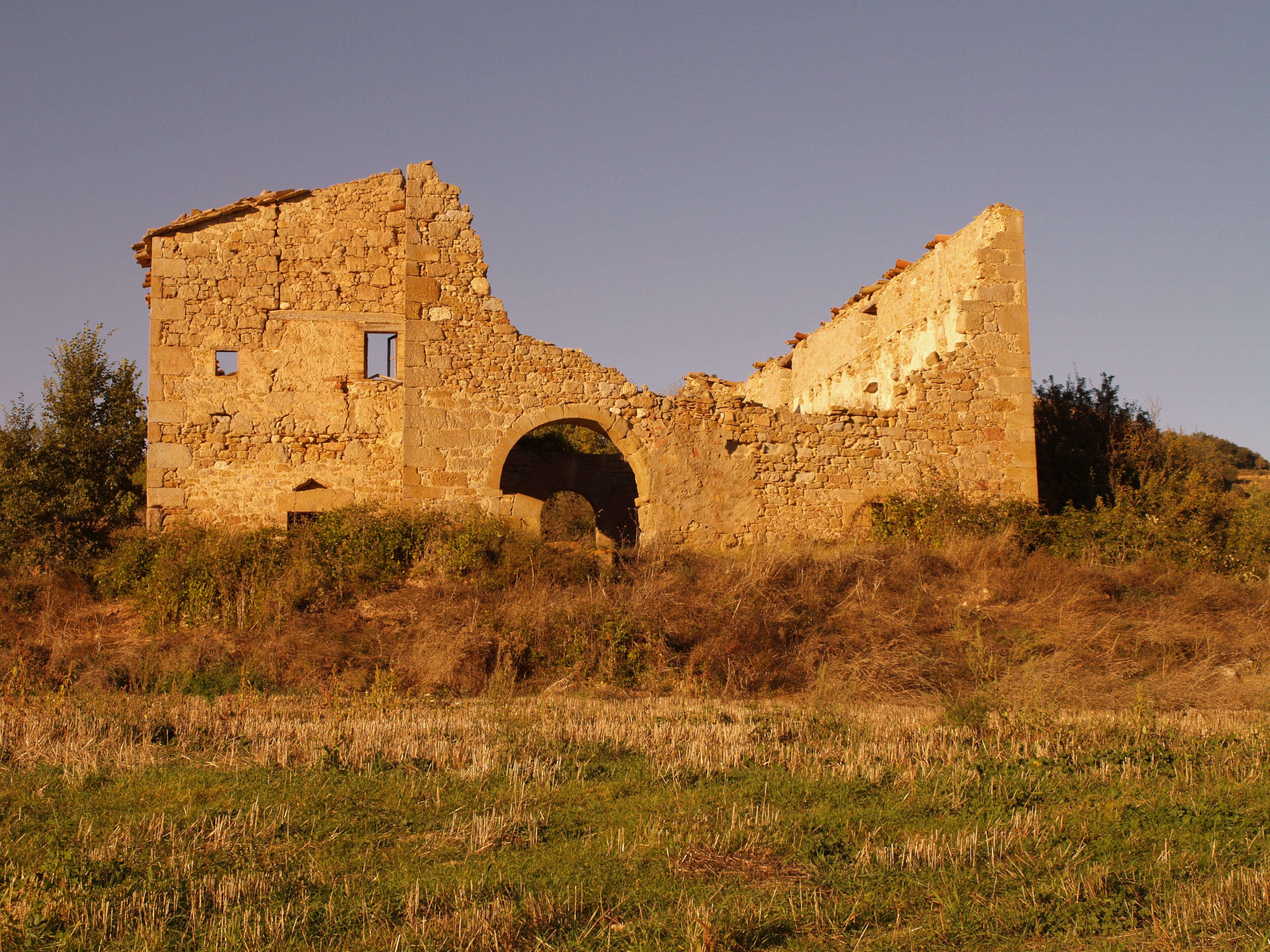 That's an ancient catalan country house, located in Lladurs, in the shire of Solsones in Catalonia.